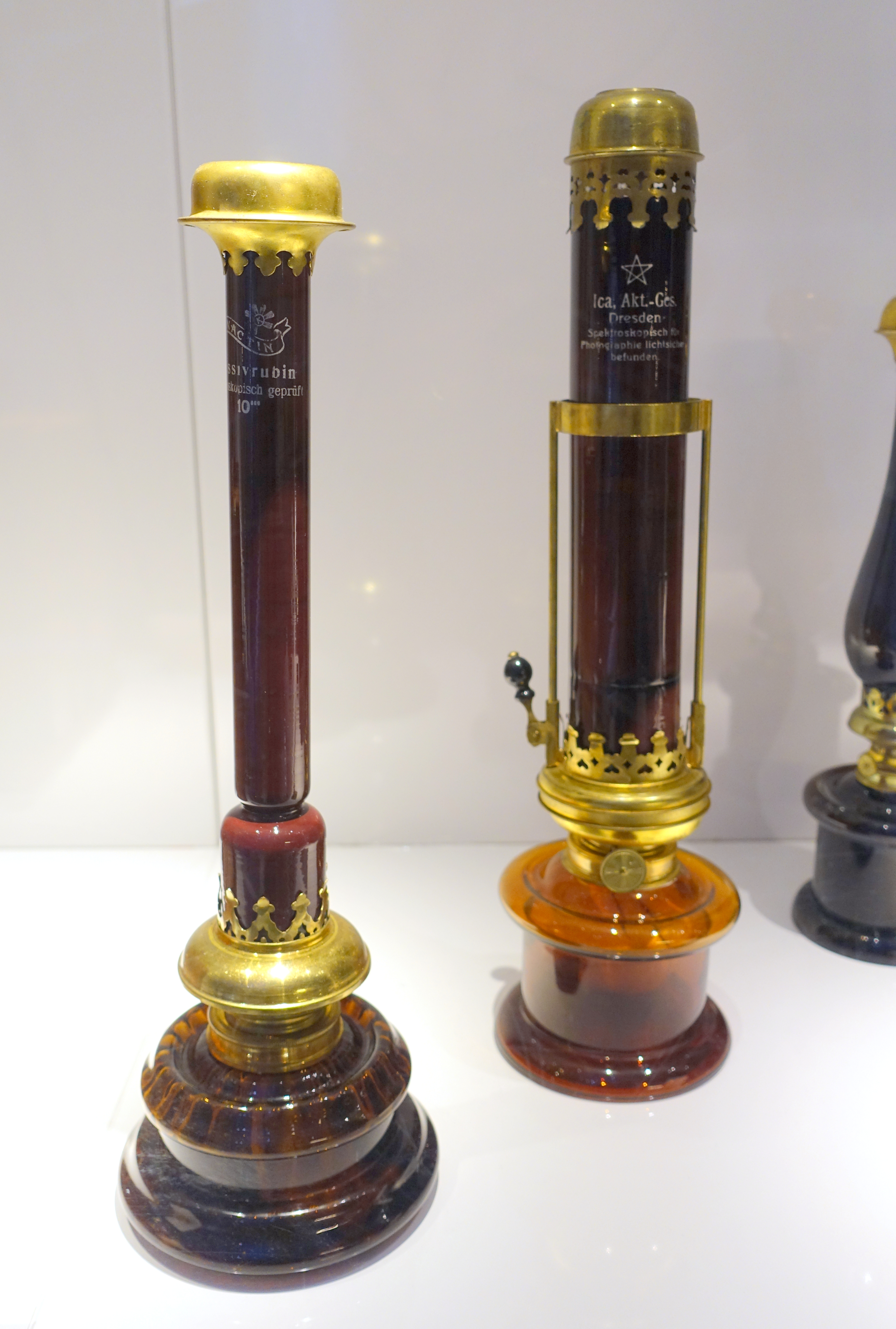 Exhibit in the Tekniska museet, Stockholm, Sweden. This work is old enough so that it is in the public domain.